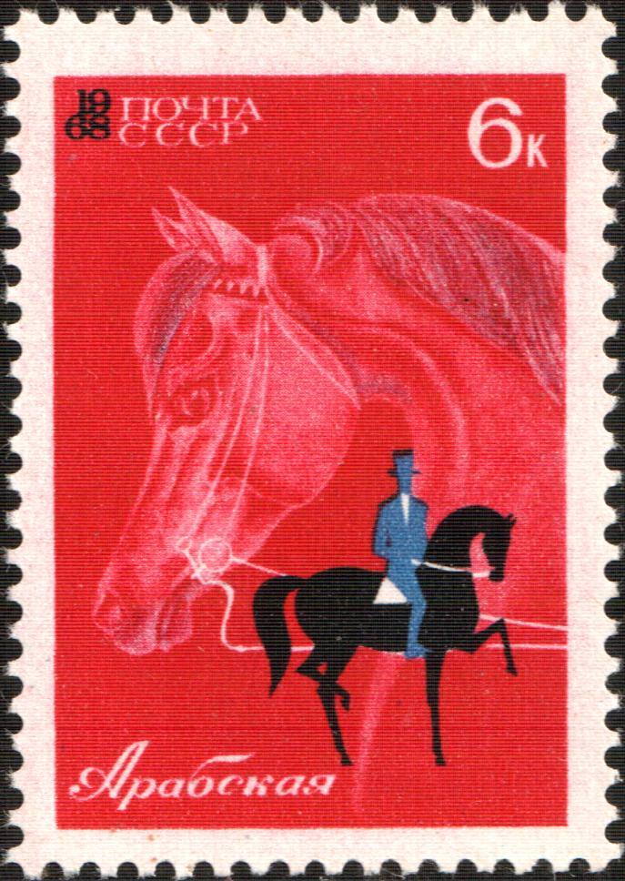 USSR stamp: Arab Horse (Mare) and Dressage. Series: Soviet Horse Breeding and Riding